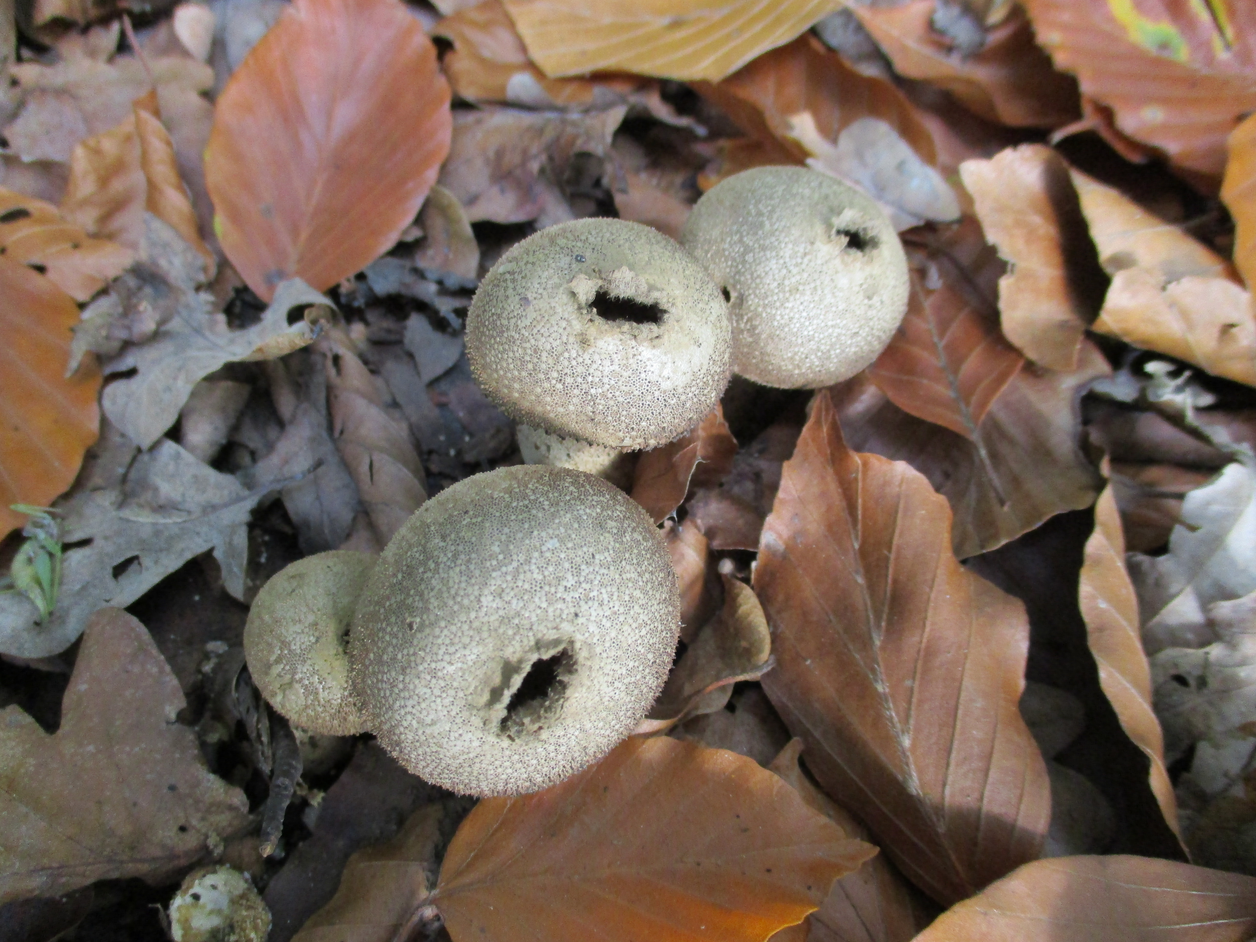 Lycoperdon perlatum, popularly known as the common puffball with holes through which spores were released.